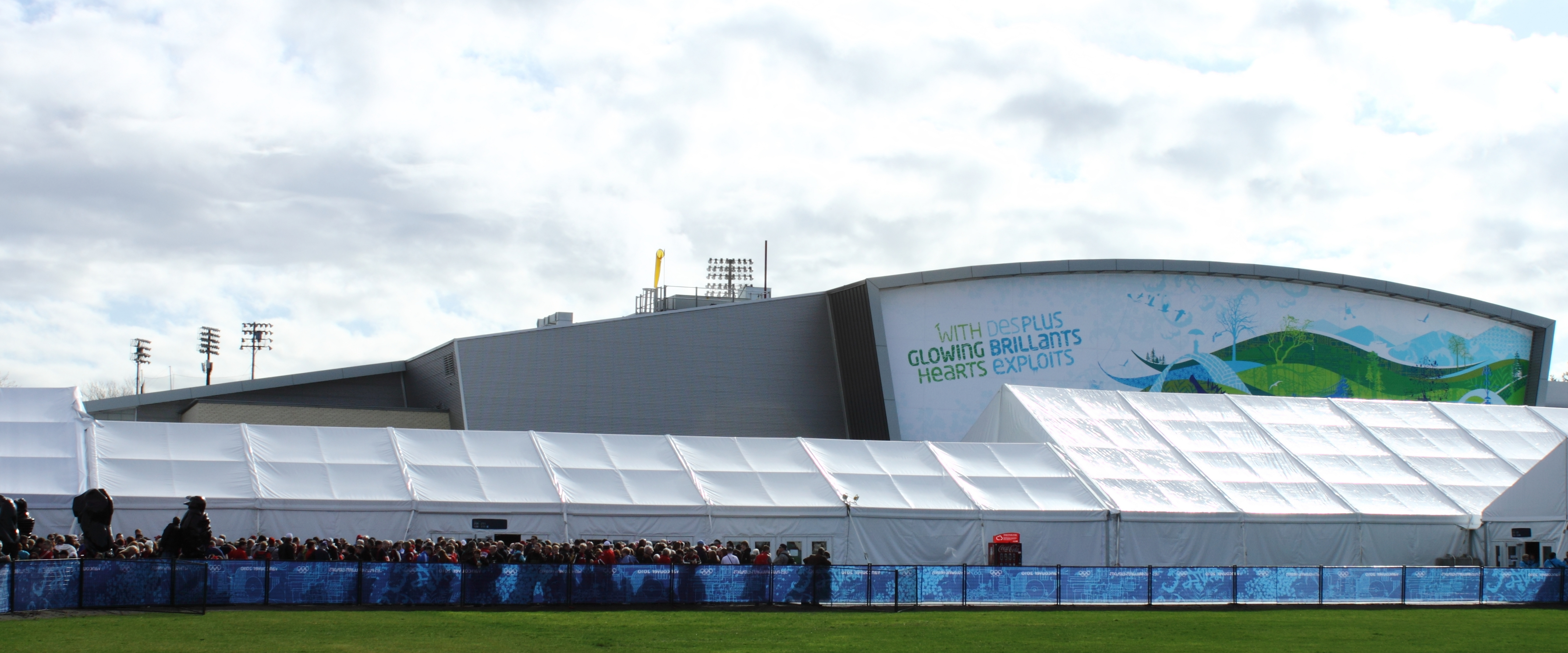 2010 Vancouver Olympic Games - Women's Curling - Preliminary from Vancouver Olympic Centre